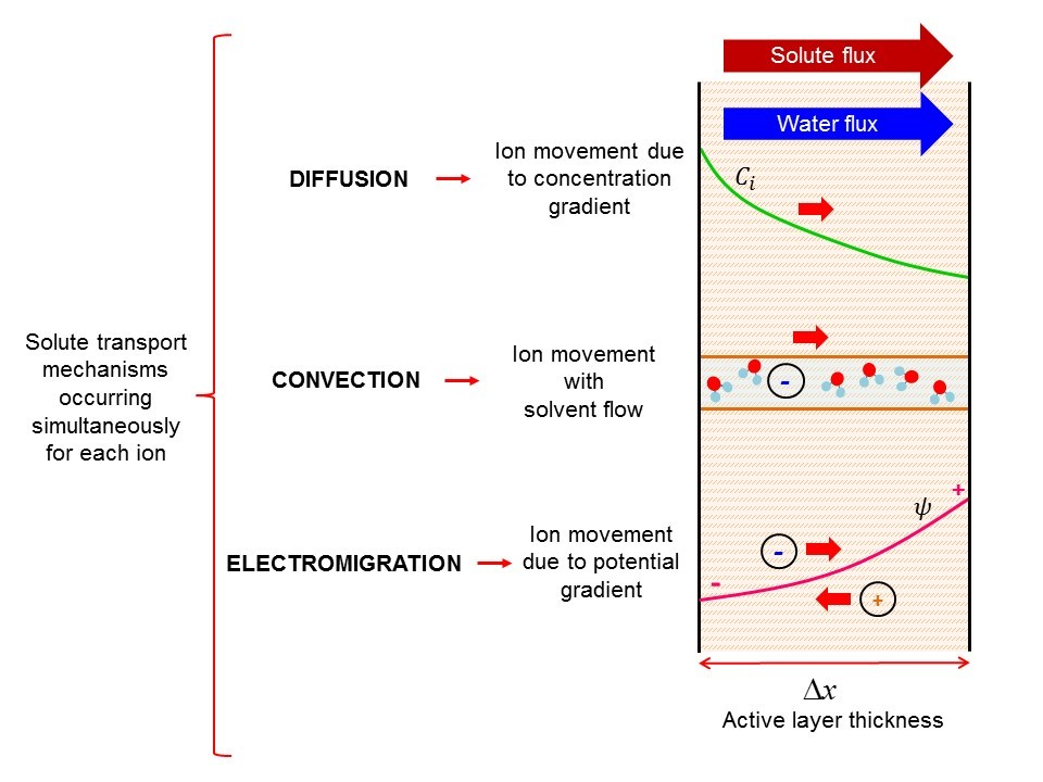 Schematic representation of solute transport mechanisms in nanofiltration. These are the mechanisms through which solutes in nanofiltration transport through the membrane. These include diffusion (movement of solute down a concentration gradient), convection (solute transported by bulk fluid motion) and electro-migration (ion movement due to the membrane potential gradient).[1]